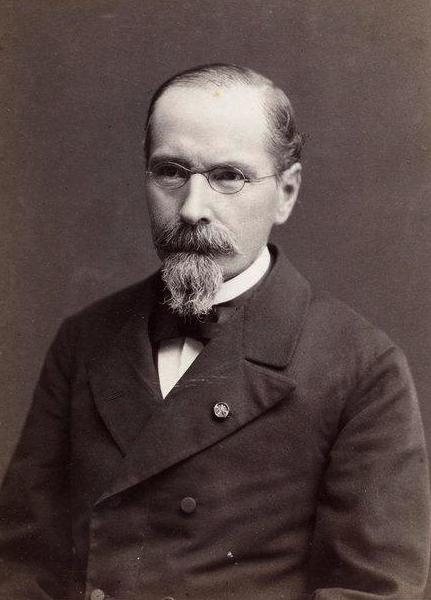 Picture of Karel Koristka